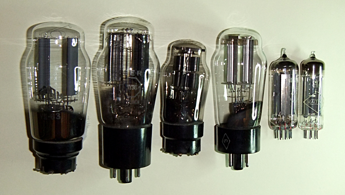 Full wave rectifiers: AZ1, 5Y3G, EZ3, 5C4S, EZ80, 6X4